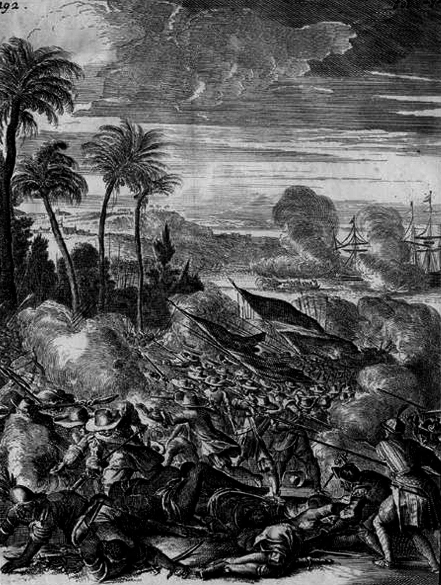 Wouter Schouten, A battle on the Malabar Coast between the Dutch East India Company and the Portuguese, with Hindu Nairs in December 1661; Dutch ships are in the background